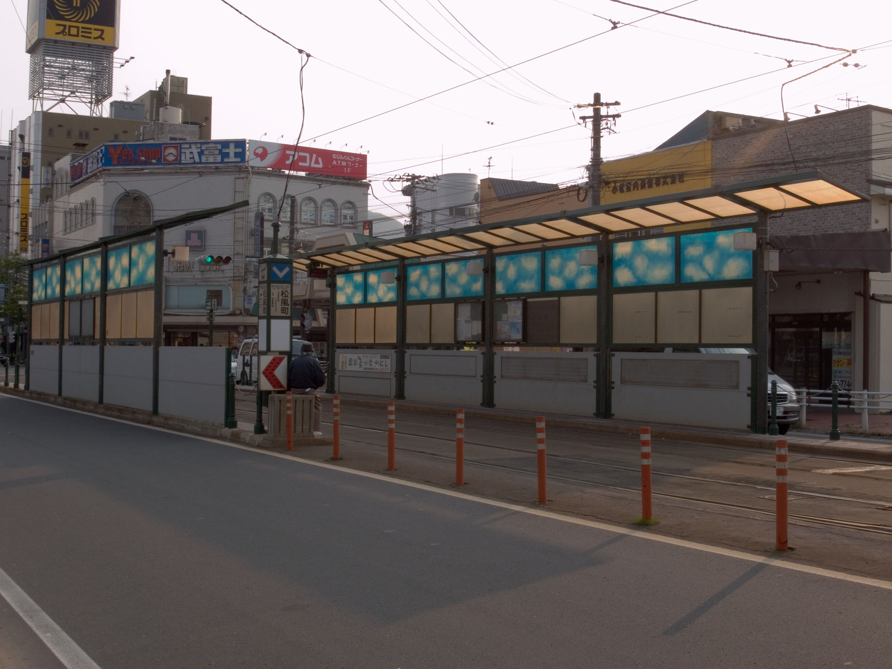 Matsukazecho staion in Hakodate tram, Hokkaido, Japan